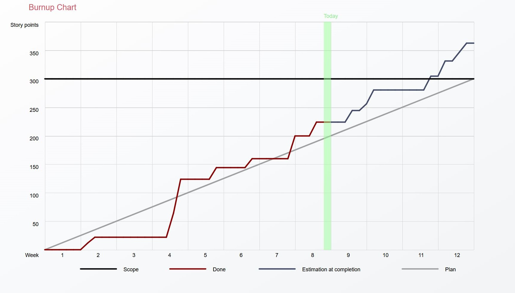 SimulTrain BurnUp Chart for Agile Software Development / Project Management